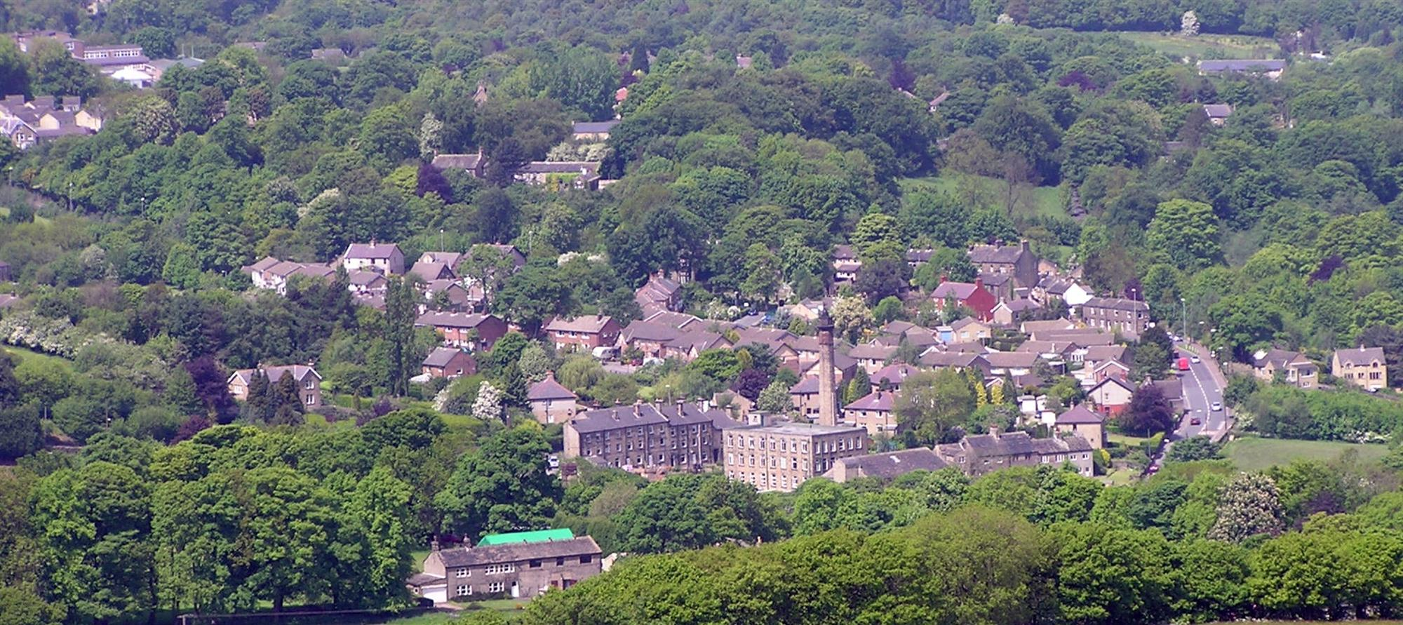 View of Kirkroyds & Lydgate, New Mill from Tenter Hill. The chimmney of Moorhouse and Brookes Mill Rises from the bottom of Greenhill Bank.